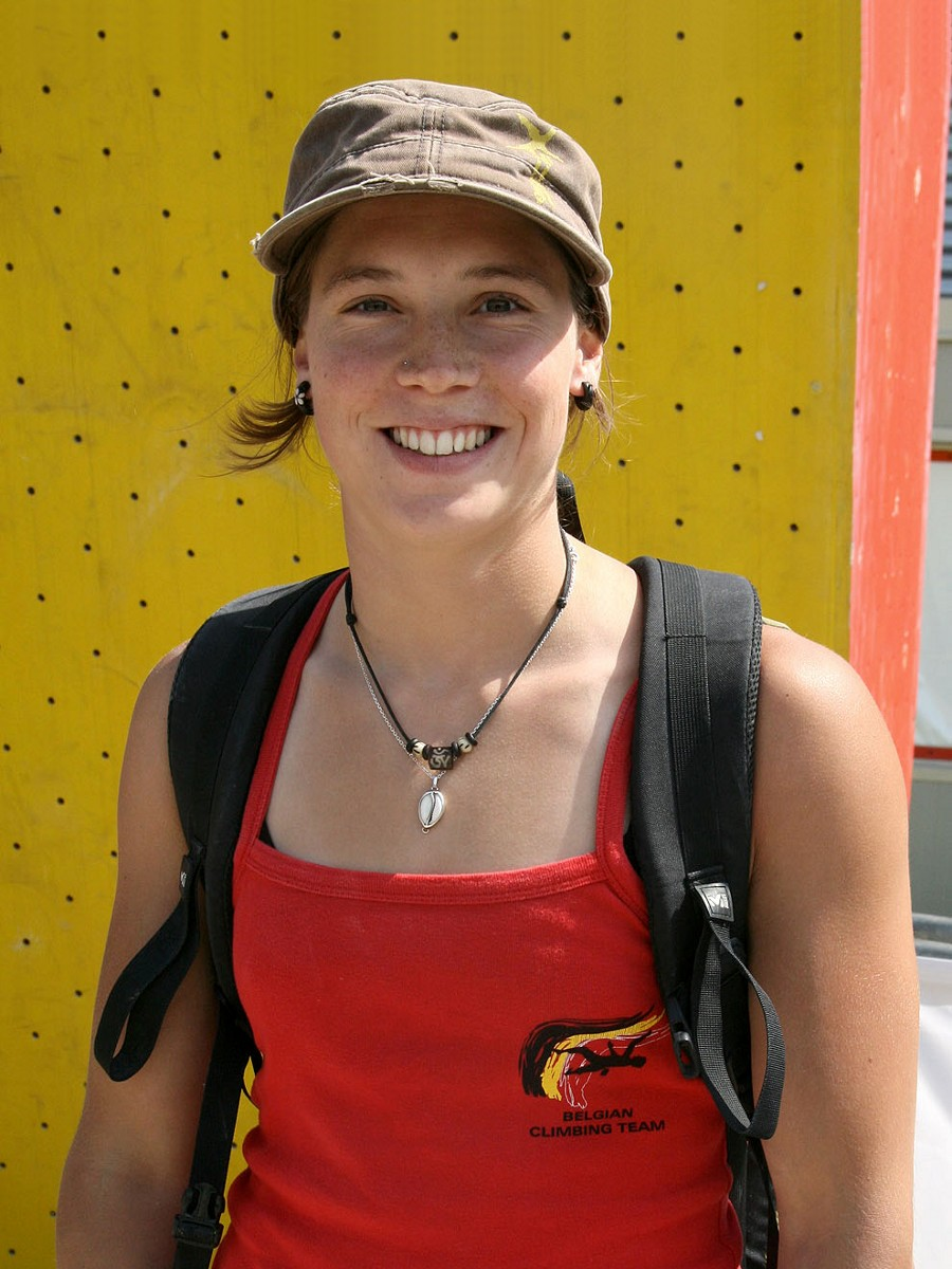 Chloé Graftiaux during the semi-finals at the IFSC Boulder Worldcup Vienna 2010.